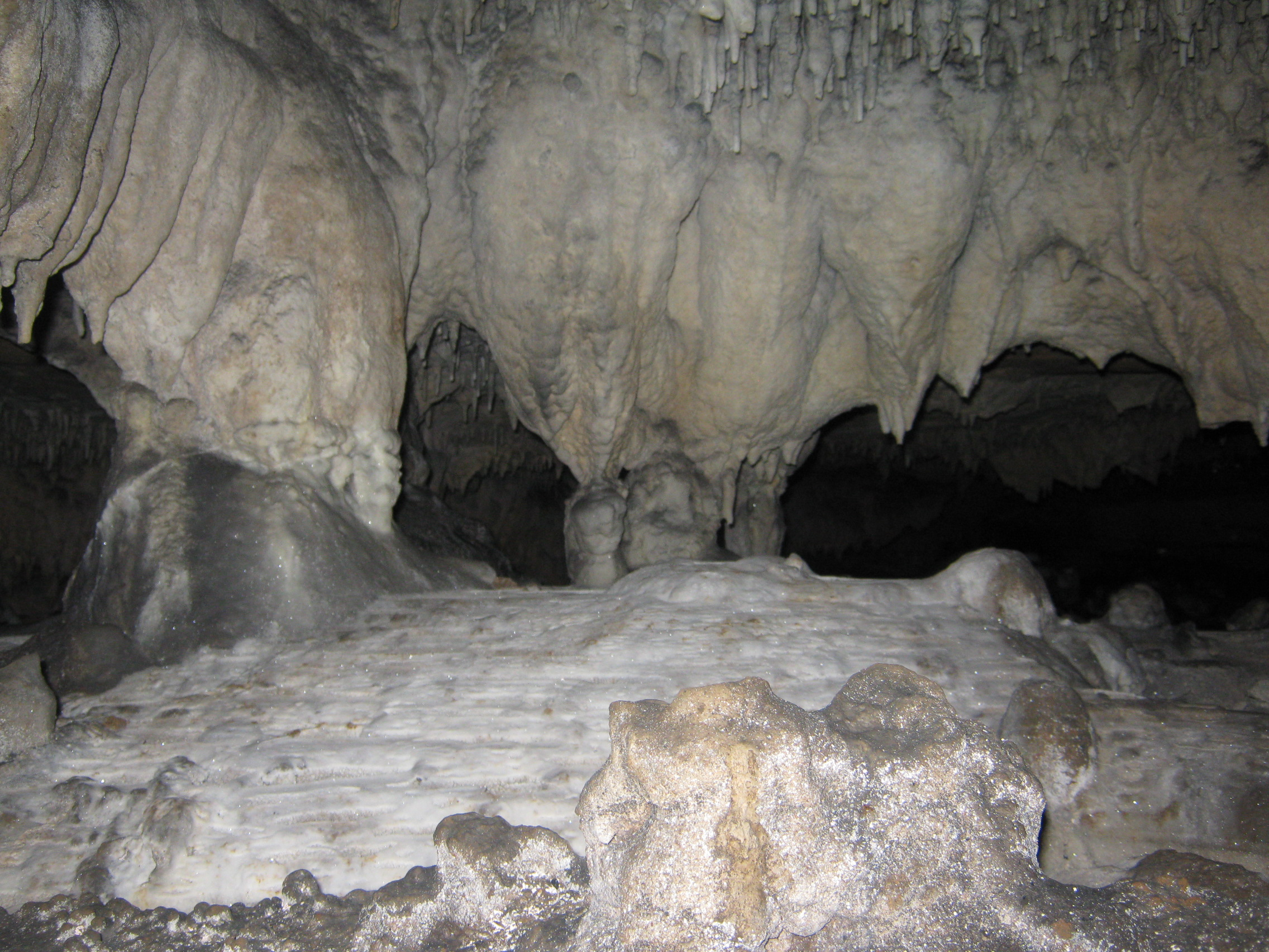 The interior of Samuilitsa cave - one of the most important Middle Palaeolithic sites in Bulgaria.